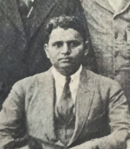 Entomologists at the fifth meeting in Pusa 1923 Fifth row (standing) Mukerjee, G.D.Ojha, Bashir, Torabaz Khan, D.P. Singh Fourth row (standing) M.O.T. Iyengar, R.N. Singh, S. Sultan Ahmad, G.D. Misra, Sharma, Ahmad Mujtaba, Mohammad Shaffi Third row (standing) Rao Sahib Rama Chandra Rao, D Naoroji, G.R.Dutt, Rai Bahadur C.S. Misra, SCJ Bennett (bacteriologist, Muktesar), P.V. Isaac, T.M. Timoney, Harchand Singh, S.K.Sen Second row (seated) Mr M. Afzal Husain, Major RWG Hingston, Dr C F C Beeson, T. Bainbrigge Fletcher, P.B. Richards, J.T. Edwards, Major J.A. Sinton First row (seated) Rai Sahib PN Das, B B Bose, Ram Saran, R.V. Pillai, M.B. Menon, V.R. Phadke (veterinary college, Bombay)